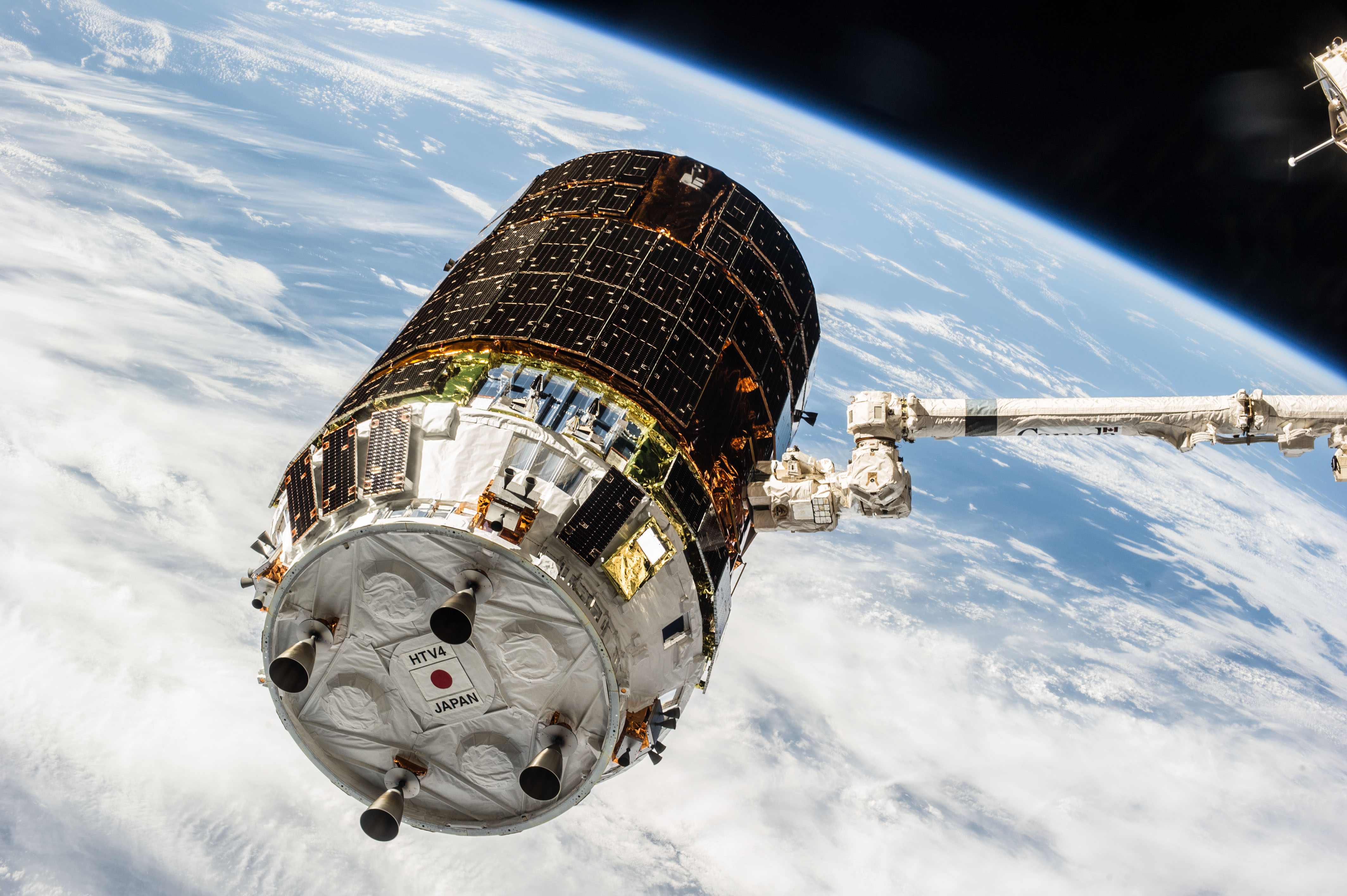 The International Space Station's Canadarm2 grapples the unpiloted Japanese "Kounotori" H2 Transfer Vehicle-4 (HTV-4) as it approaches the station, and will attach it to the Earth-facing port of the station's Harmony node. The HTV-4 is delivering 3.6 tons of science experiments, equipment and supplies to the orbiting complex. A blue and white part of Earth provides the backdrop for the scene.